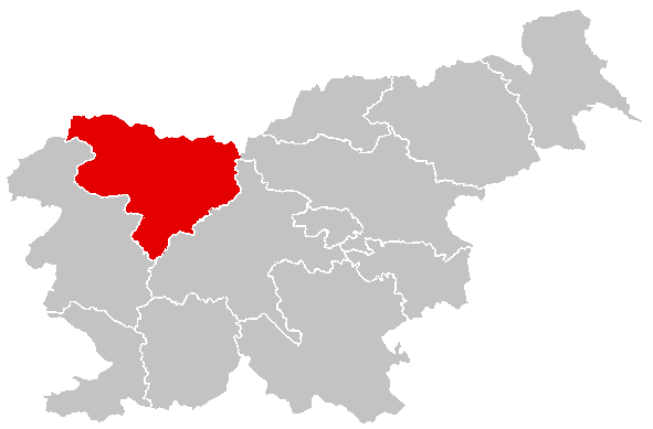 modified image from File:Slovenian-regions-obalnokraska.png to represent Gorenjska region